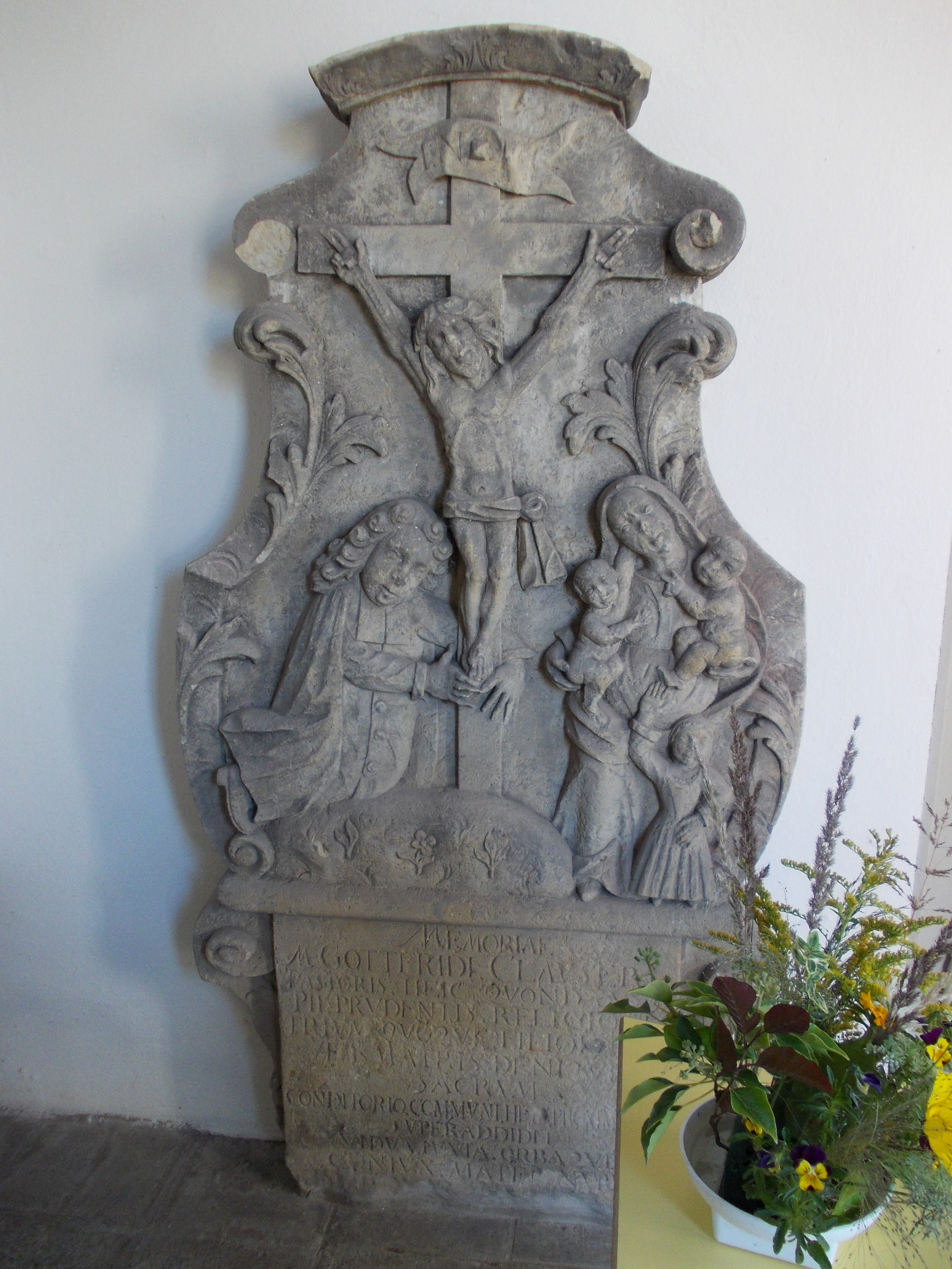 Epitaph in St. Nicholas Church in Machern (Leipzig district, Saxony)